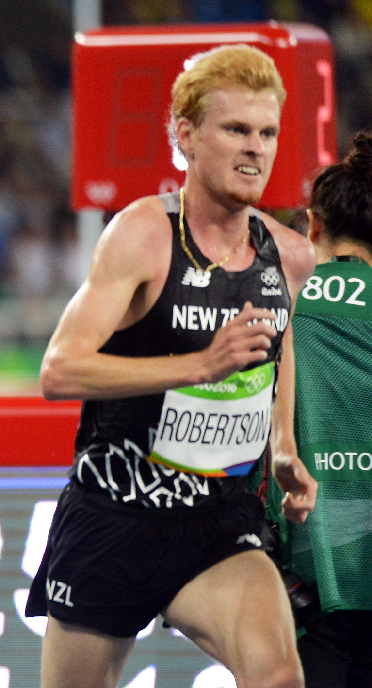 Spcs. Leonard Korir and Shadrack Kipchichir finish 14th and 19th respectively in the men's 3,000-meter run Aug. 13 at the 2016 Rio Olympic Games in Rio de Janeiro. Both Soldiers in the U.S. Army World Class Athlete Program turned in their season-best performaces, with Korir finishing in 27 minutes, 58.65 seconds and Kipchirchir clocked at 27:58.32. Mohamed Farah of Great Britain successfully defended his Olympic crown by winning the race in 27:05.17. Paul Kipnetech Tanui of Kenya took the silver in 27:05.64, and Tamirat Tola of Ethiopia claimed the bronze in 27:06.27.